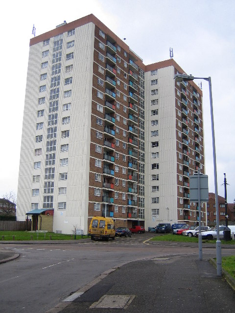 Luton: Acworth Court, Leagrave. Hockwell Ring